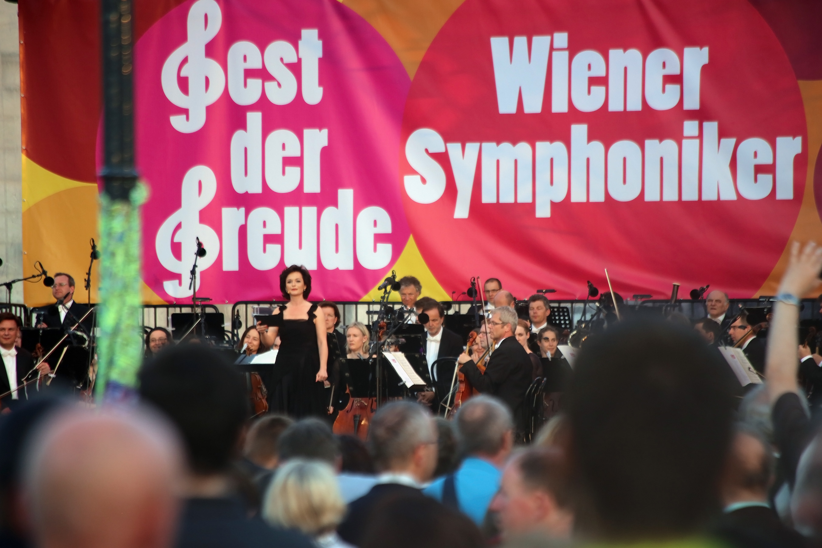 Katharina Stemberger opening the "Fest der Freude" (Festival of Joy) on Heldenplatz in Vienna, Austria.